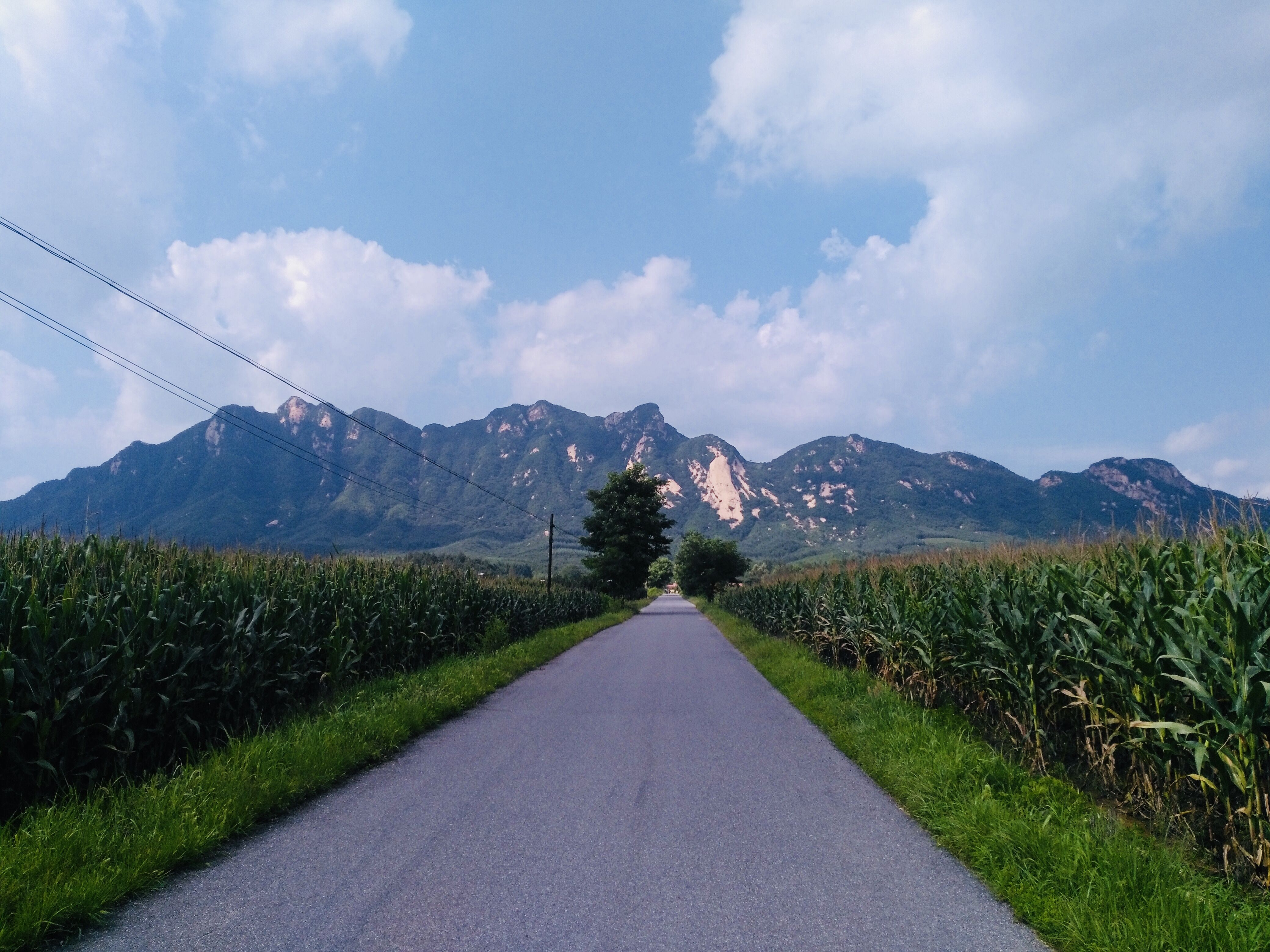 Mount Laohei is located at the northernmost part of Caohe Subdistrict, which serves as a natural dividing point of Dapu, Caohe and Jiguanshan, 3 subdivisions belonging to Fengcheng City. With an altitude of 589.4 meters it is also the highest point of Caohe Subdistrict.